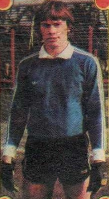 Alberto Vivalda- futbolista argentino